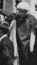 Ángel Quartucci-actor argentino